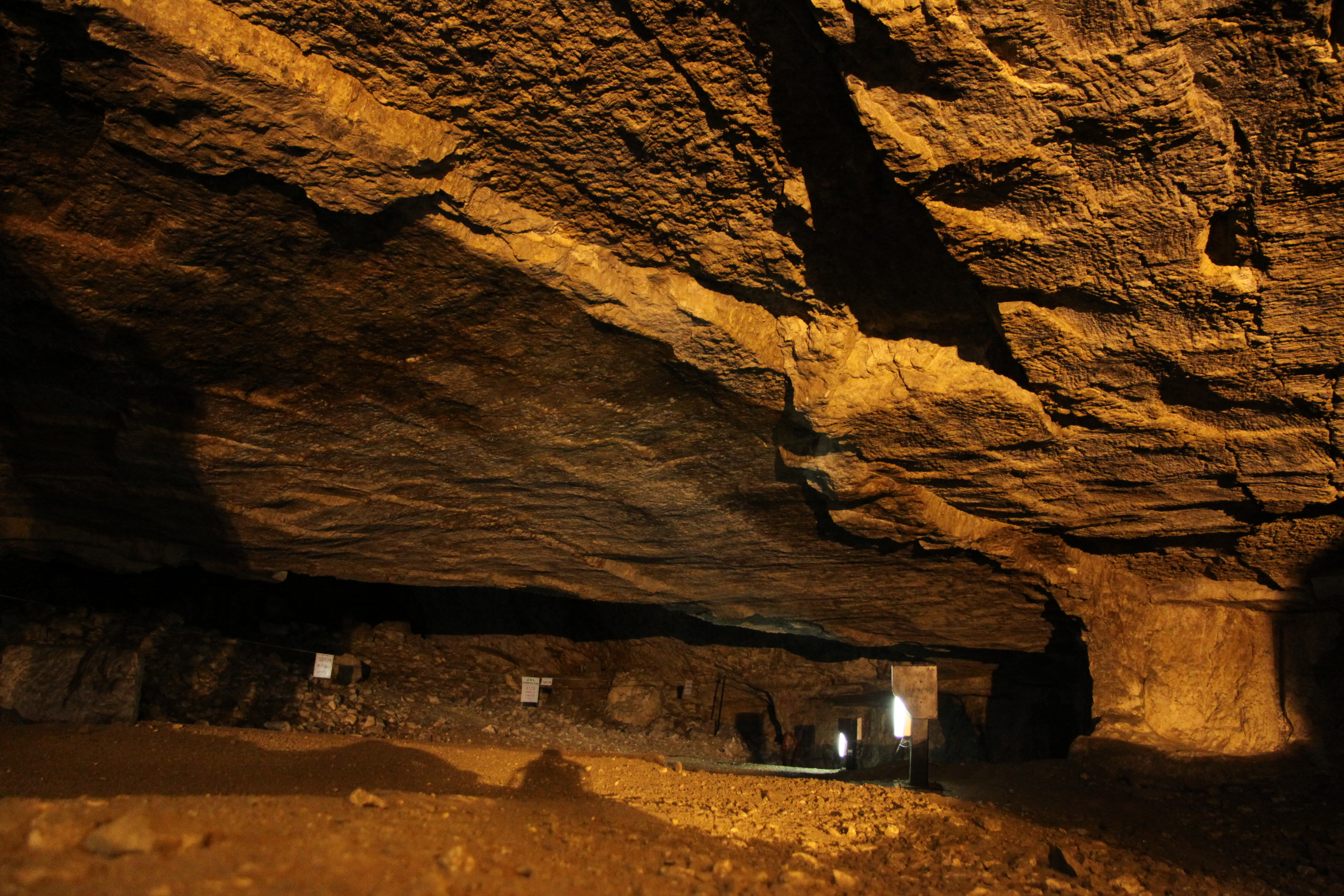 Zedekiah's Cave also known as Solomon's Quarries is limestone quarry under part of Old Town of Jerusalem, Israel - Google Maps - Google Earth